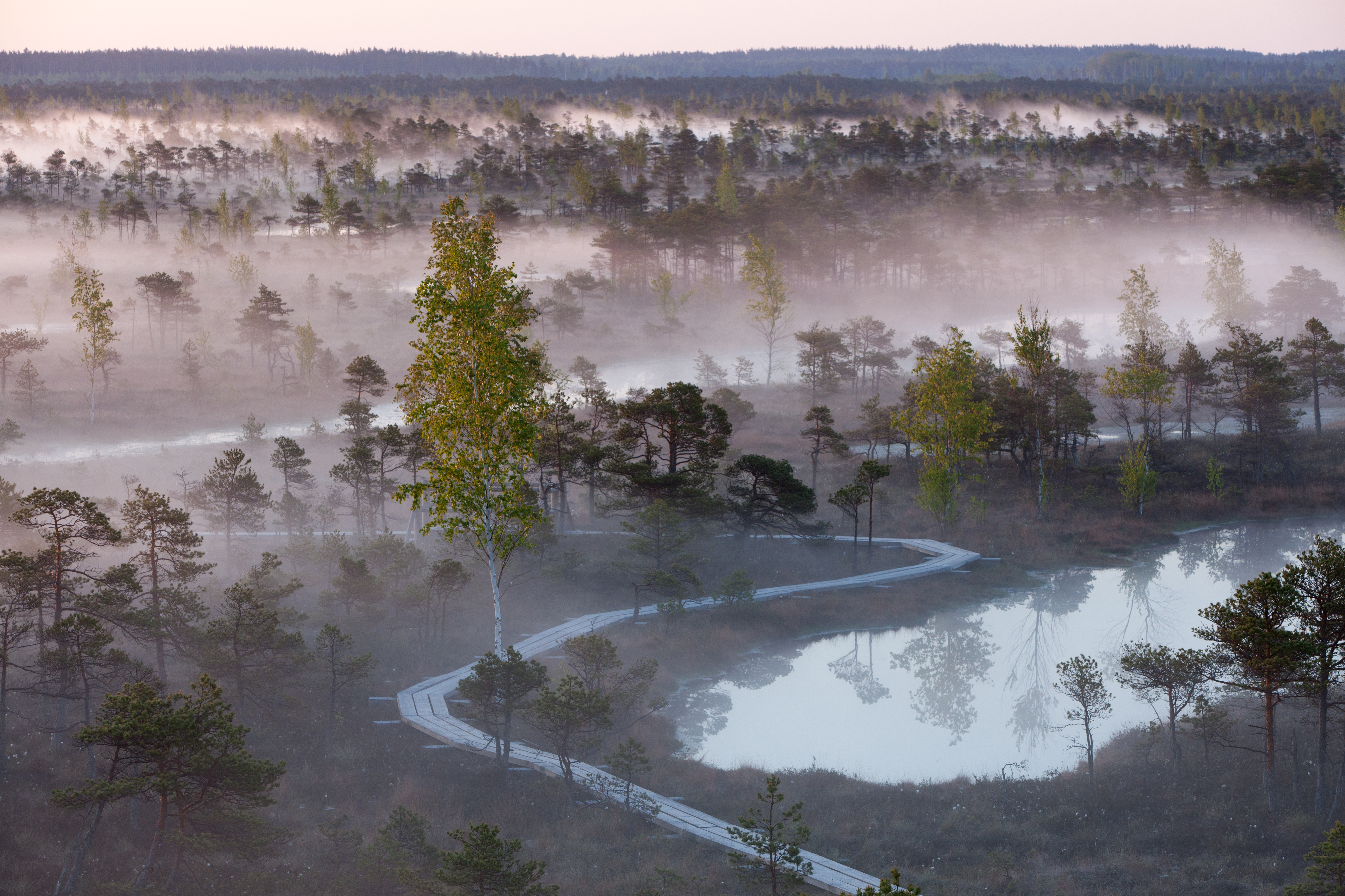 Mist in the Lielais Ķemeru tīrelis. Raised bog, one of Latvia's biggest wetlands.